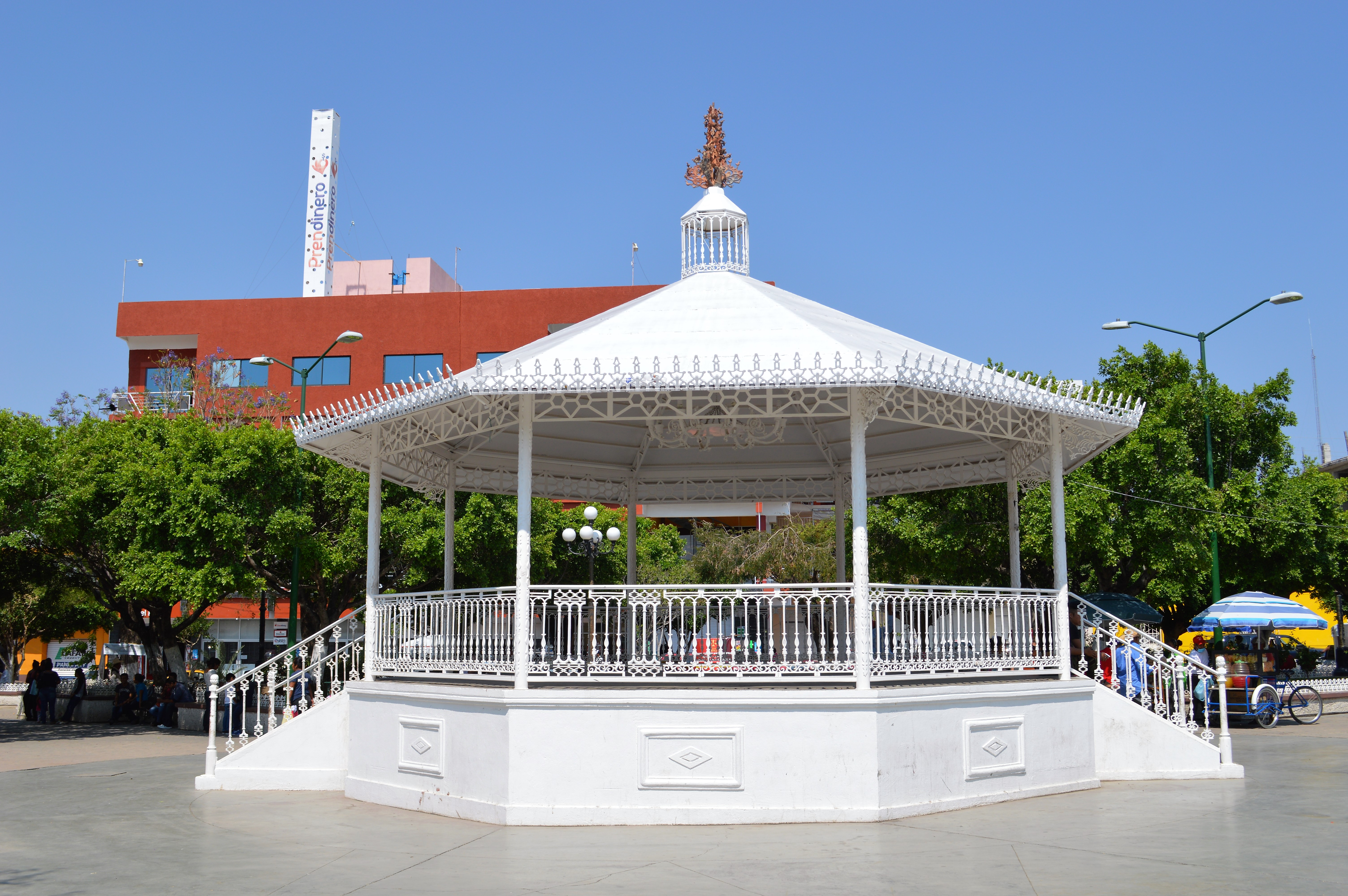 Kioks in the main square of Acatlan de Osorio, Puebla